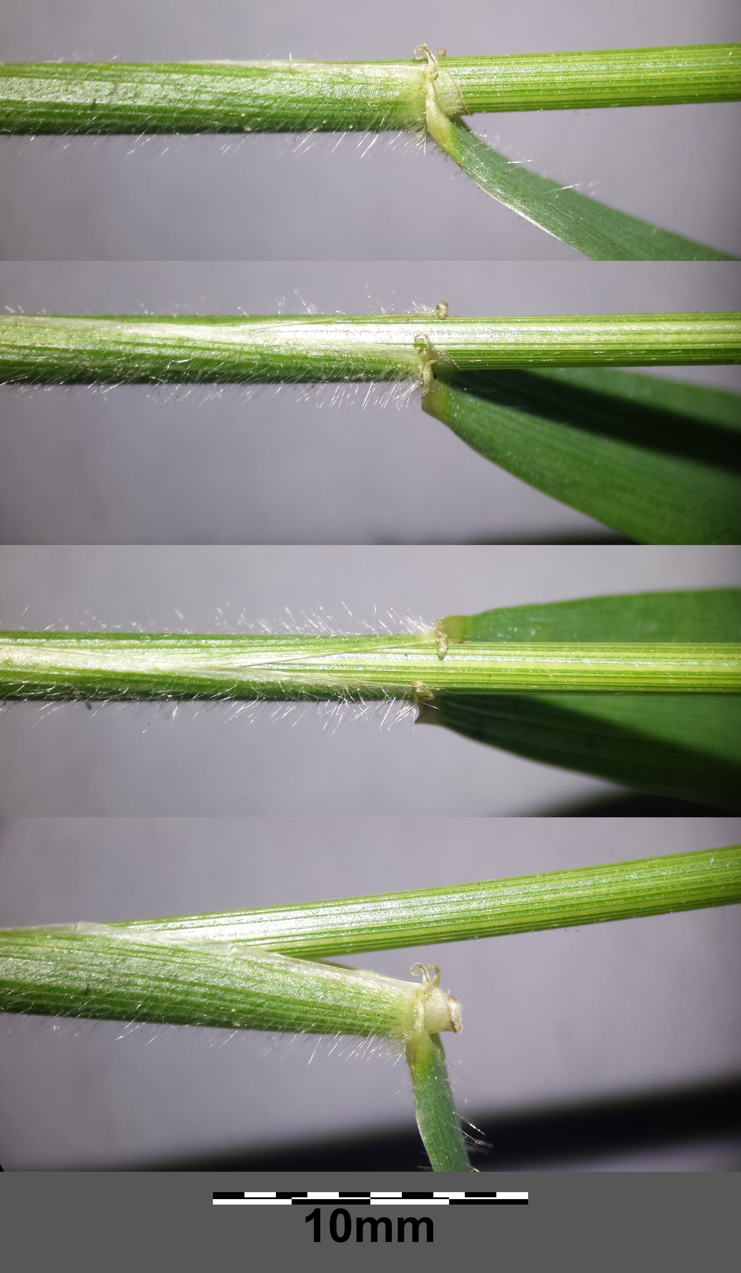 Stem with leaf sheath and ligule Taxonym: Hordelymus europaeus ss Fischer et al. EfÖLS 2008 ISBN 978-3-85474-187-9 Location: Galgenwald east of Merkersdorf, district Korneuburg, Lower Austria - ca. 280 m a.s.l. Habitat: bright wood